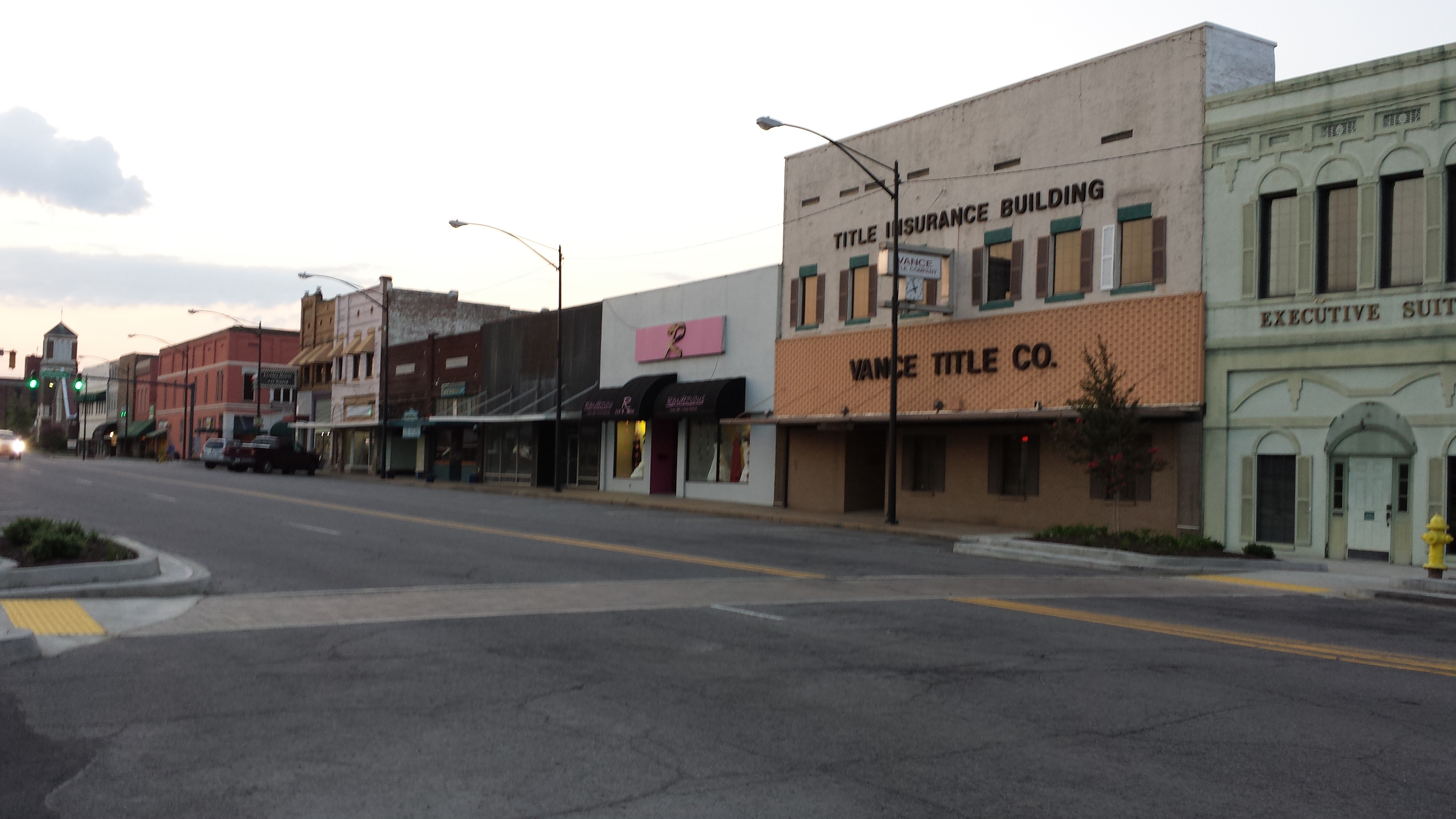 Main street in Russellville, AR